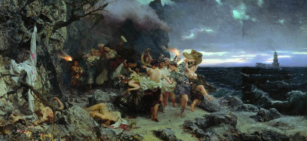 Orgy of the Times of Tiberius on Capri (painting by Henryk Siemiradzki, 1881)